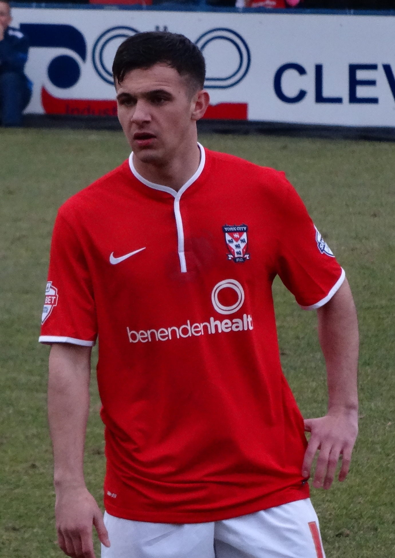 Diego De Girolamo playing for York City against Exeter City at Bootham Crescent, York on 28 February 2015